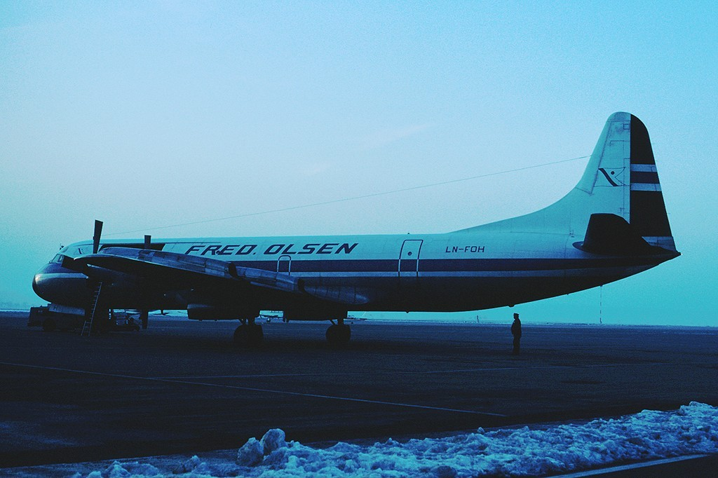 Fred. Olsens Flyselskap Lockheed L-188A(F) Electra at Euroairport (Basel, Muelhouse, Freiburg)